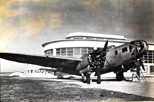 Bloch MB.131